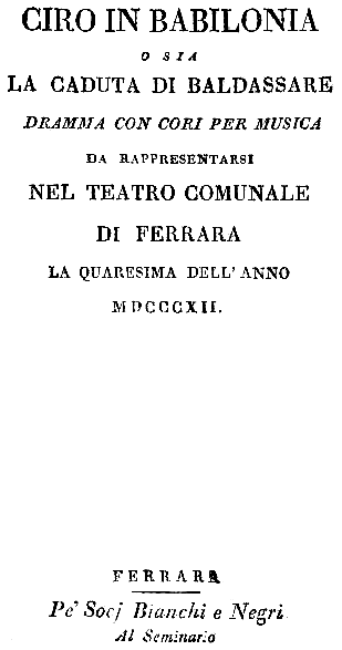 Gioachino Rossini - Ciro in Babilonia - titlepage of the libretto - Ferrara 1812